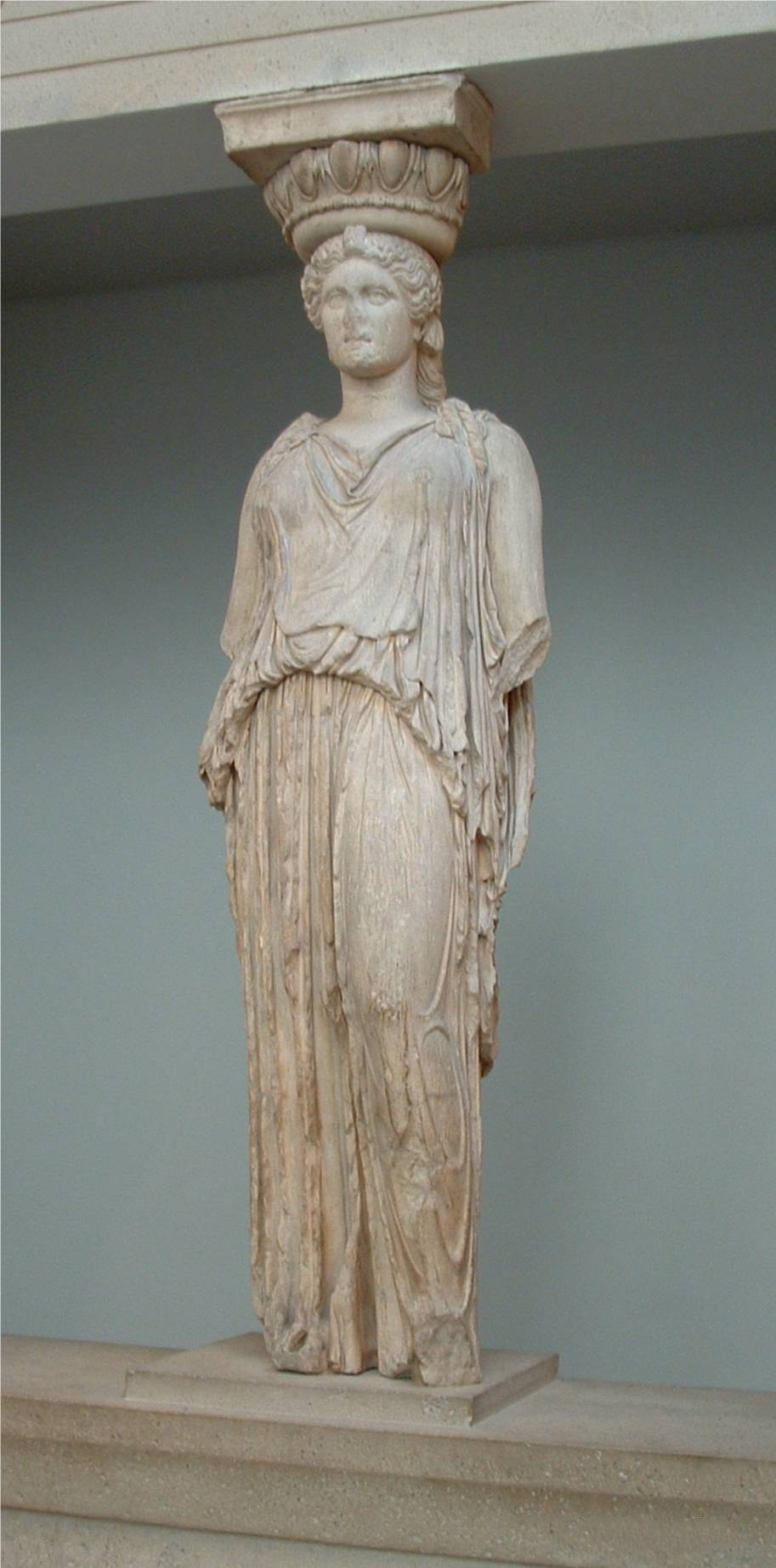 Caryatid of the Erechtheum.